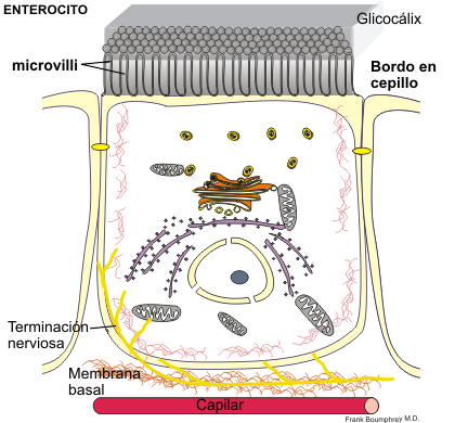 Enterocyte showing Brush border and unstirred layer